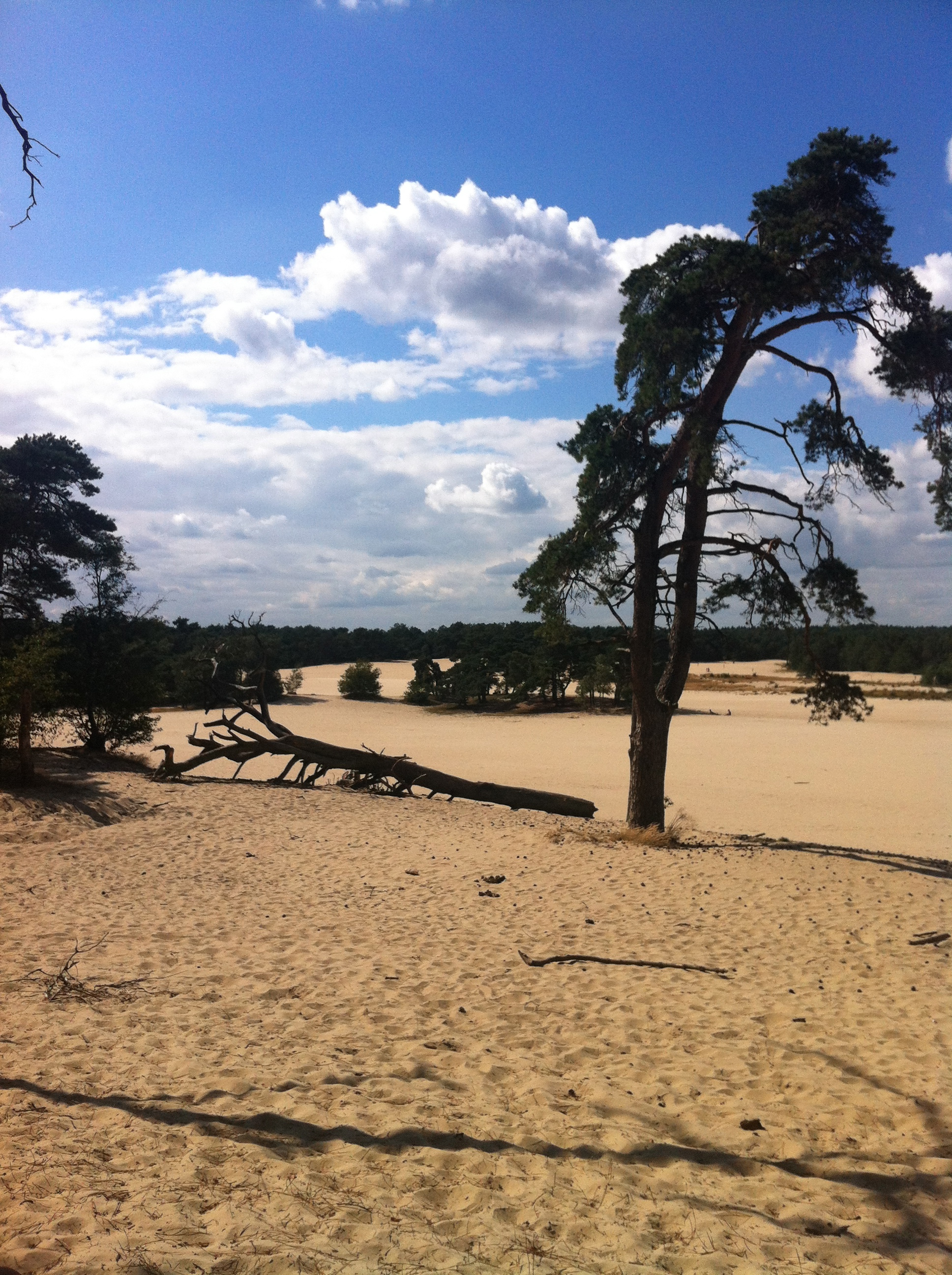 Part of the national park Loonse en Drunense Duinen in The Netherlands